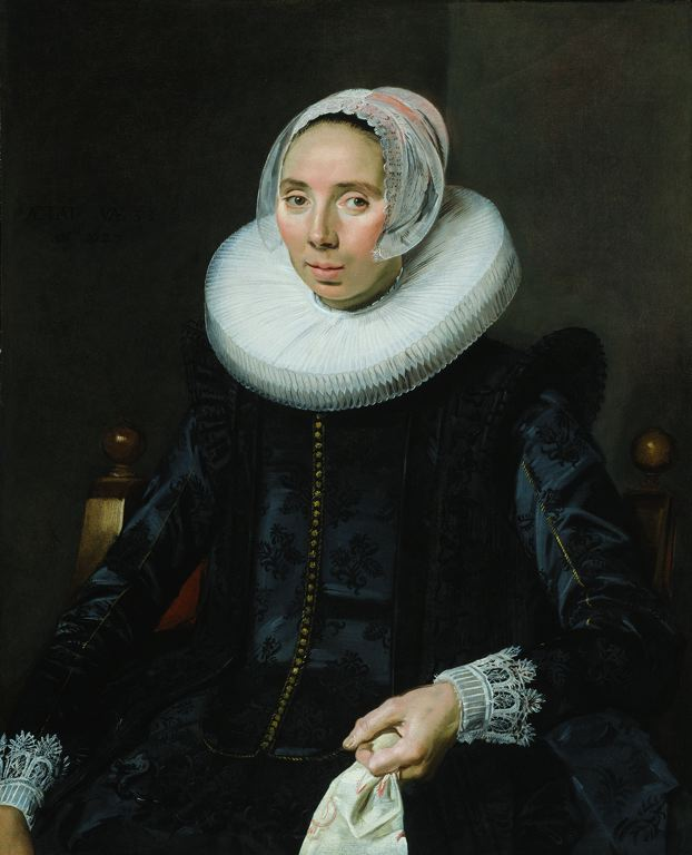 Portrait of a Lady in diadem cap and cartwheel ruff